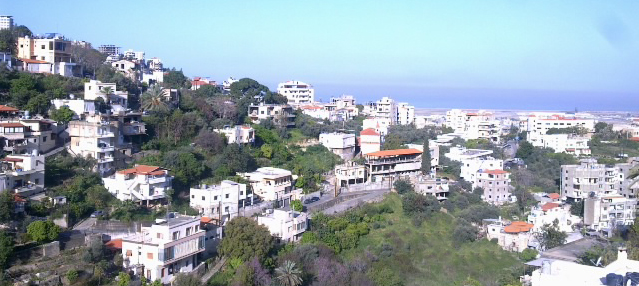 Kfarchima view